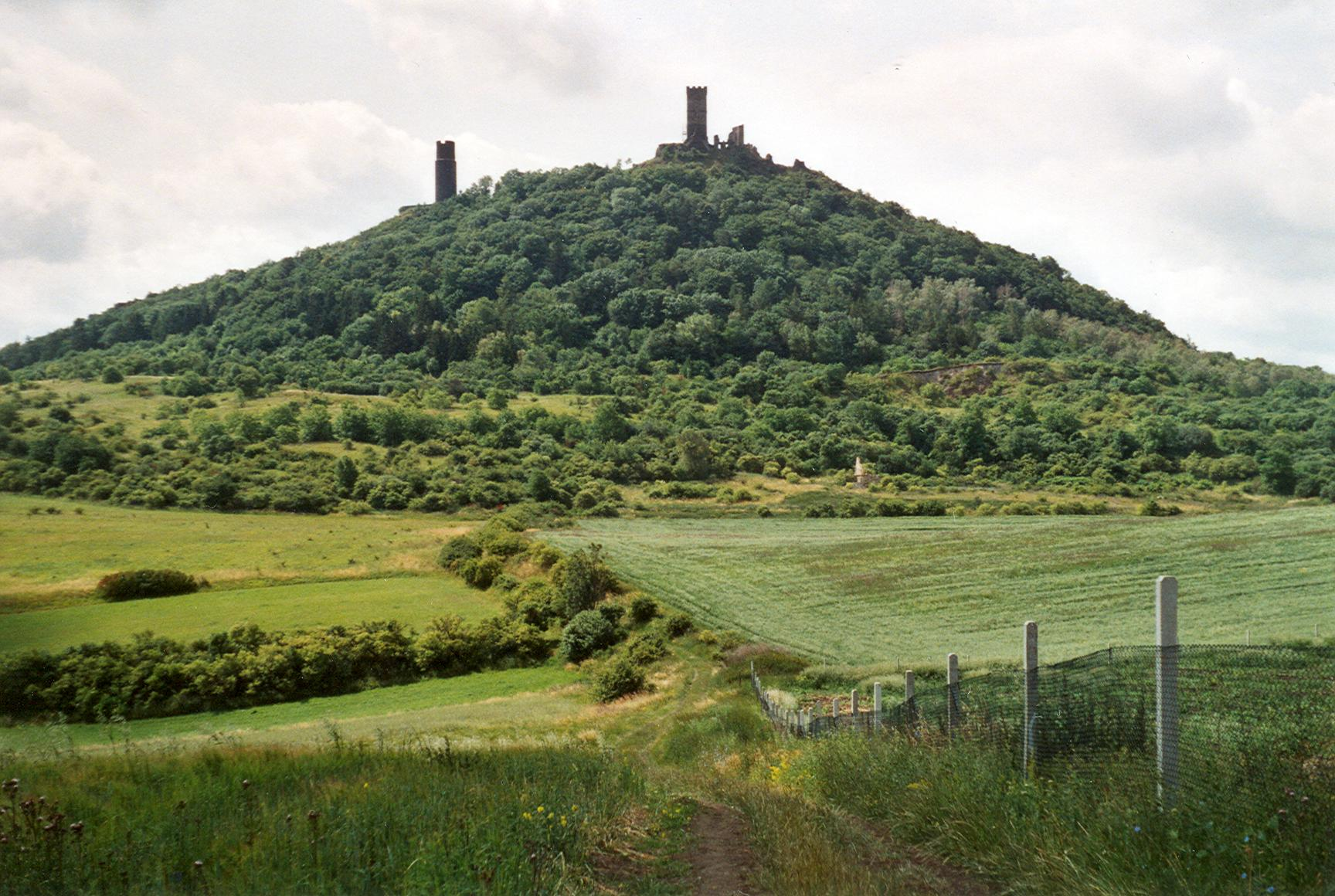 Hazmburk as seen from nouth.